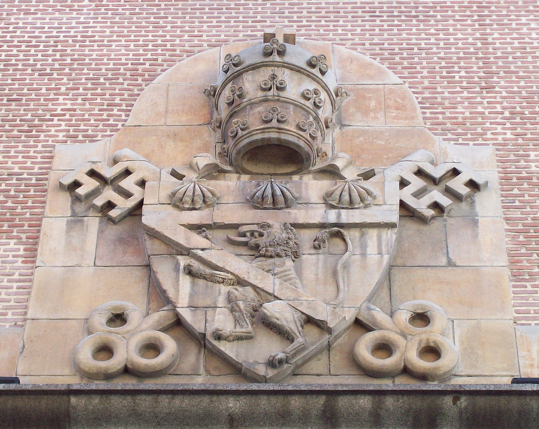 Papal coats of arms of Innocent VI. Detail of the west façade of the Iglesia de San Ginés ("Parish Church of St. Genesius"), in Madrid (Spain).